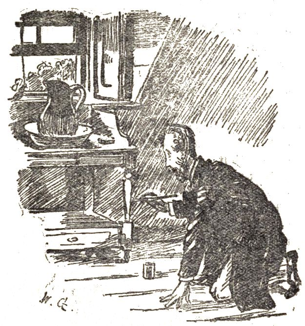 jpg of image on print page 43 of File:Diary of a Nobody.djvu